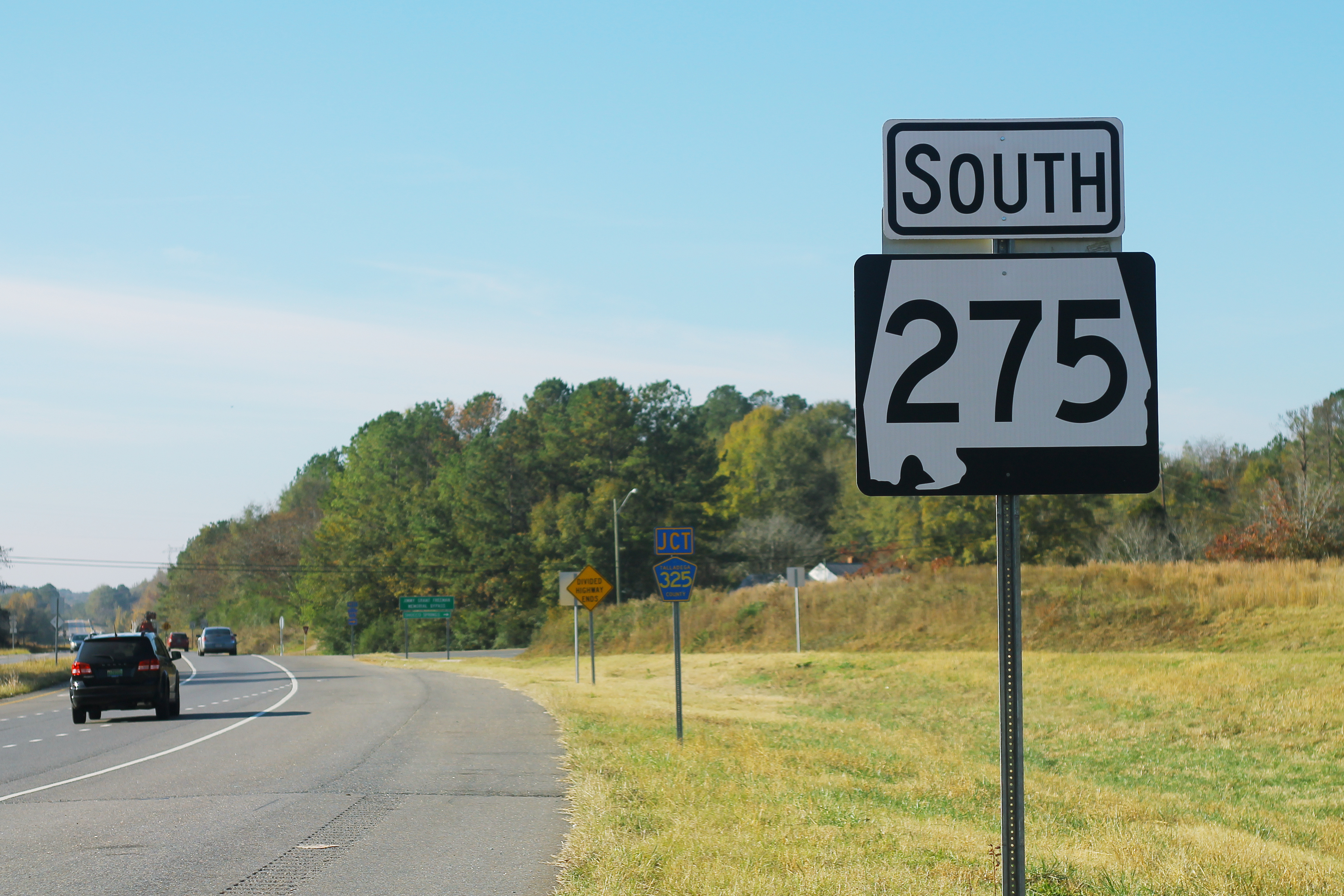 A sign denoting Alabama State Route 275 near Talladega.